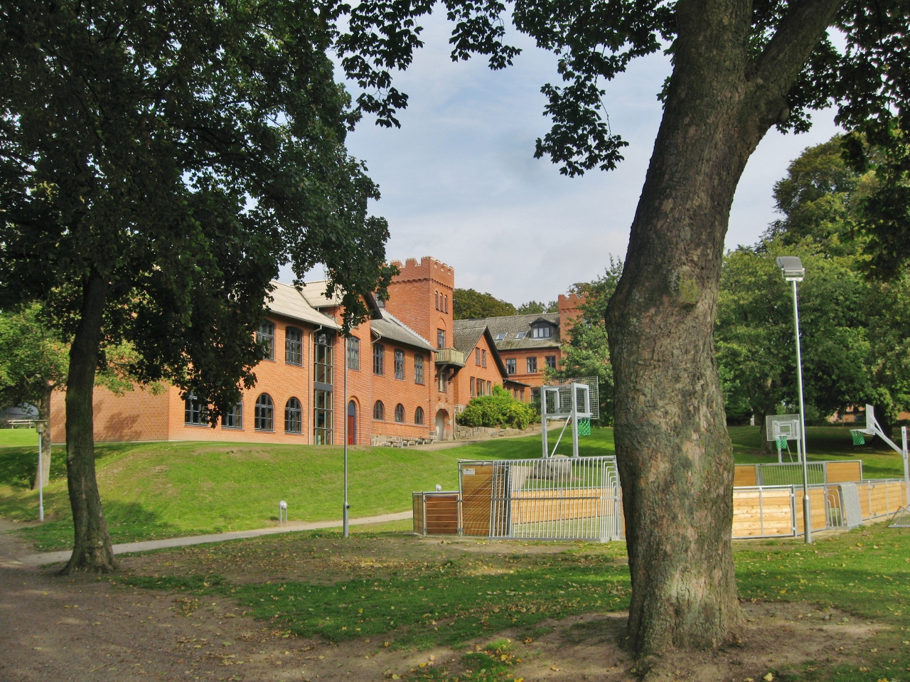 Bogø boarding school